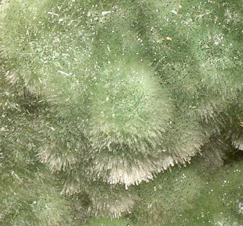 Willemite Locality: Tsumeb Mine (Tsumcorp Mine), Tsumeb, Otjikoto (Oshikoto) Region, Namibia (Locality at ) Size: 6.7 x 4.1 x 2.8 cm. A fine and rare willemite varietal from the Tsumeb Mine. Radial tufts of sea-green to colorless, very glassy, needle-like willemite crystals cover the matrix of massive willemite. Ex. Rob Smith Collection.